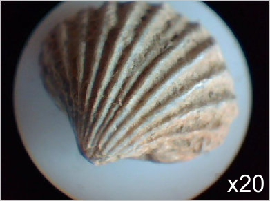 Silurian sea bed fossils collected from Wren's Nest Nature Reserve, Dudley UK. June 2014.